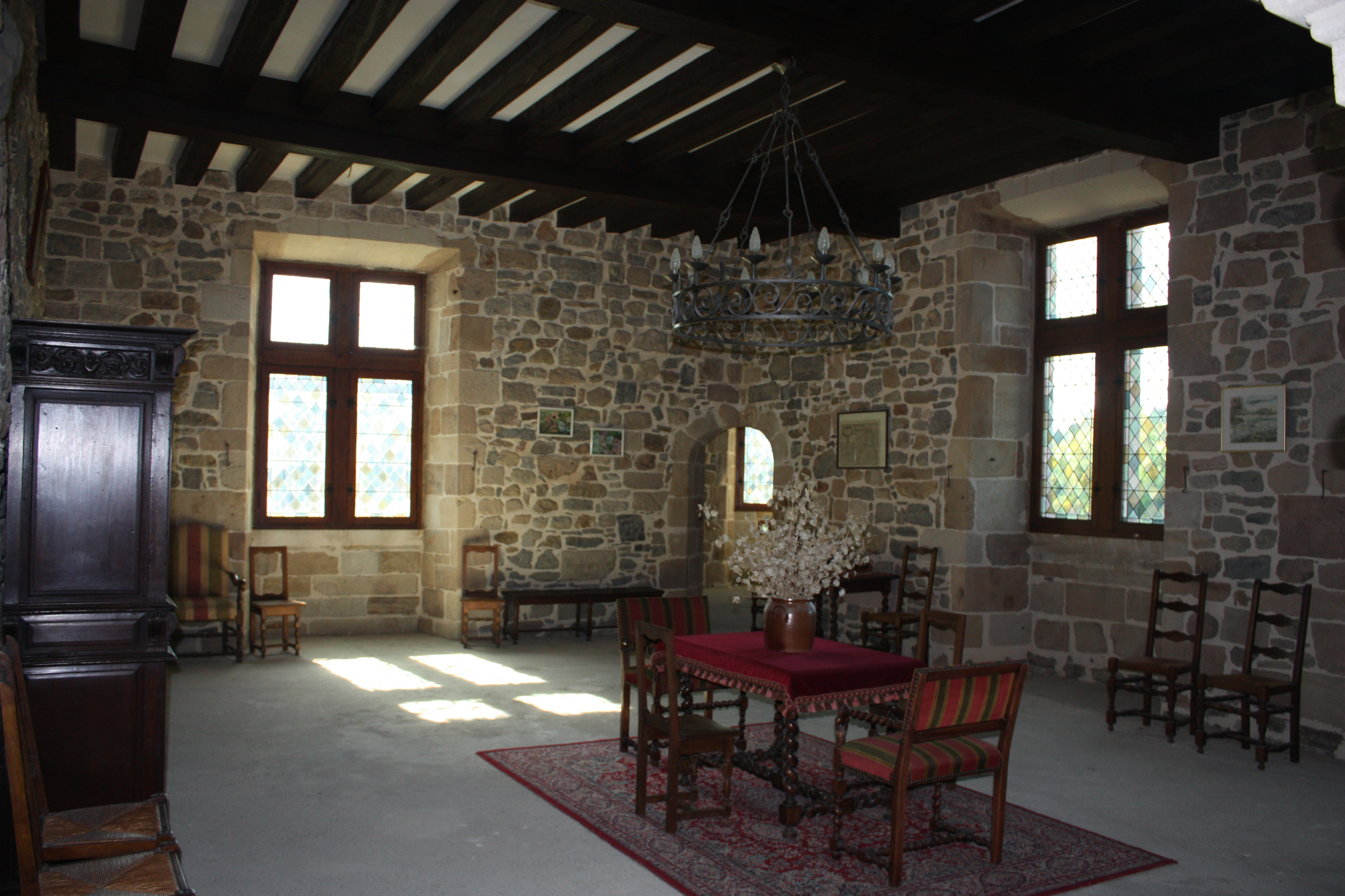 The lounge. In the corner, the remarkable work of a master mason: the door, which give access to the tower, cuts the wall at 45 °.